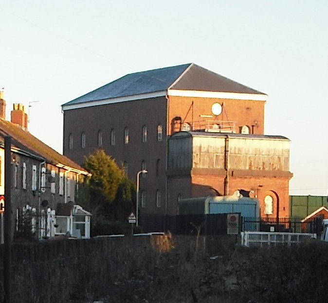 The old beam engine pump house for the Severn Tunnel, at Sudbrook.